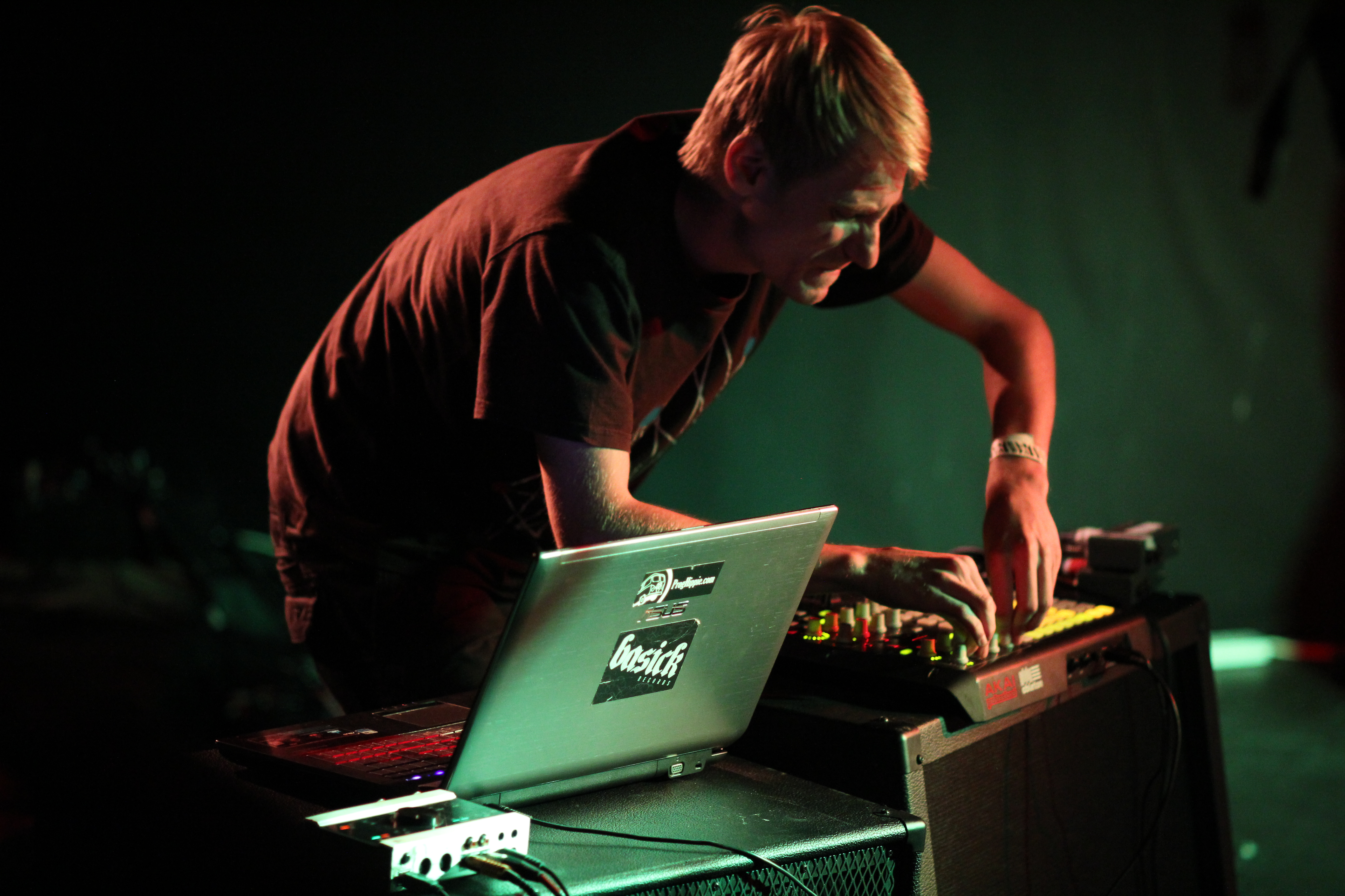 The Algorithm live at The Underworld, Camden, London, UK.